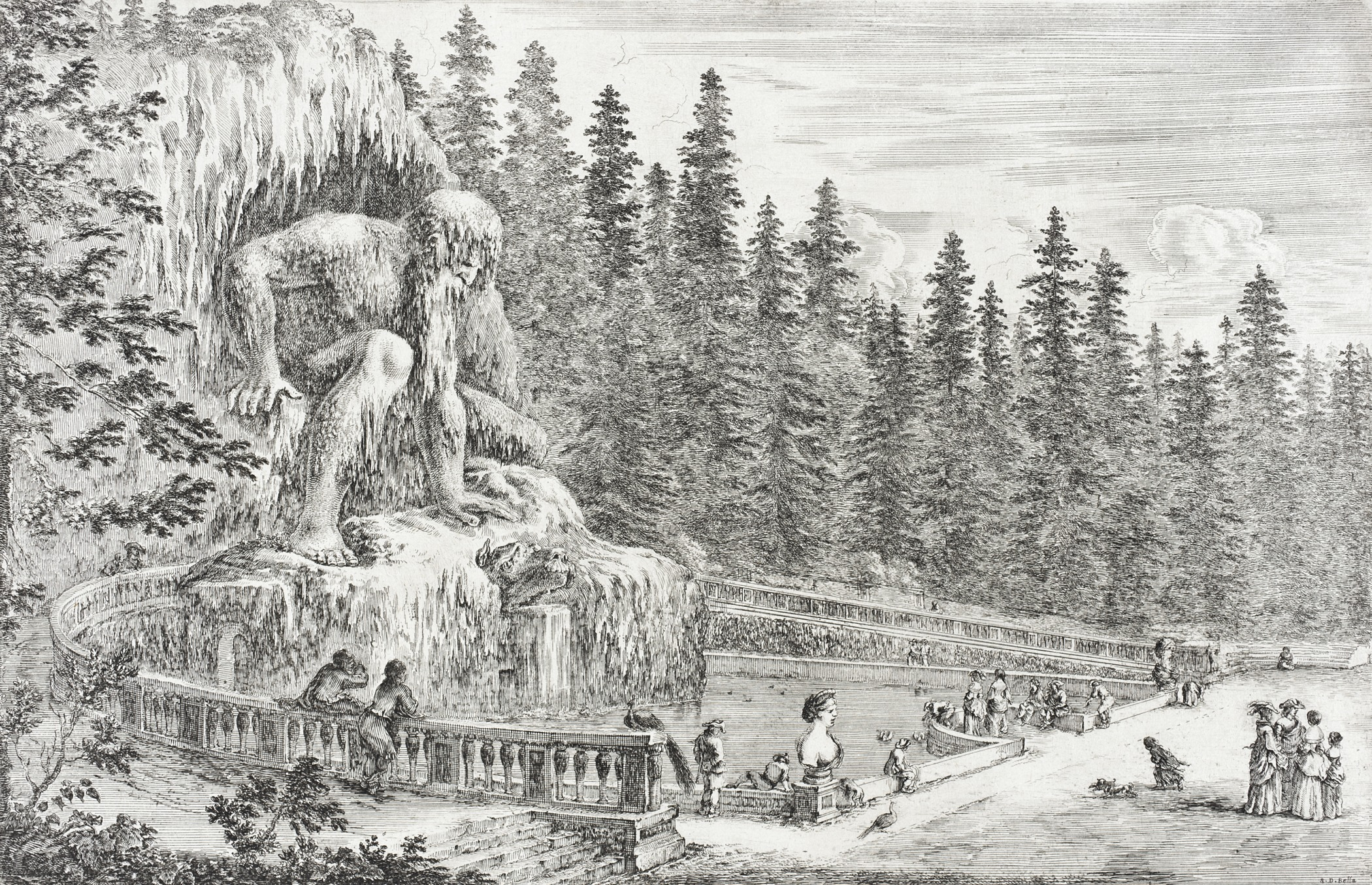 Italy, 1653 Series: Vues de la Villa de Pratolino Prints; engravings Etching Prints and Drawings Acquisition Fund (M.89.137) Prints and Drawings